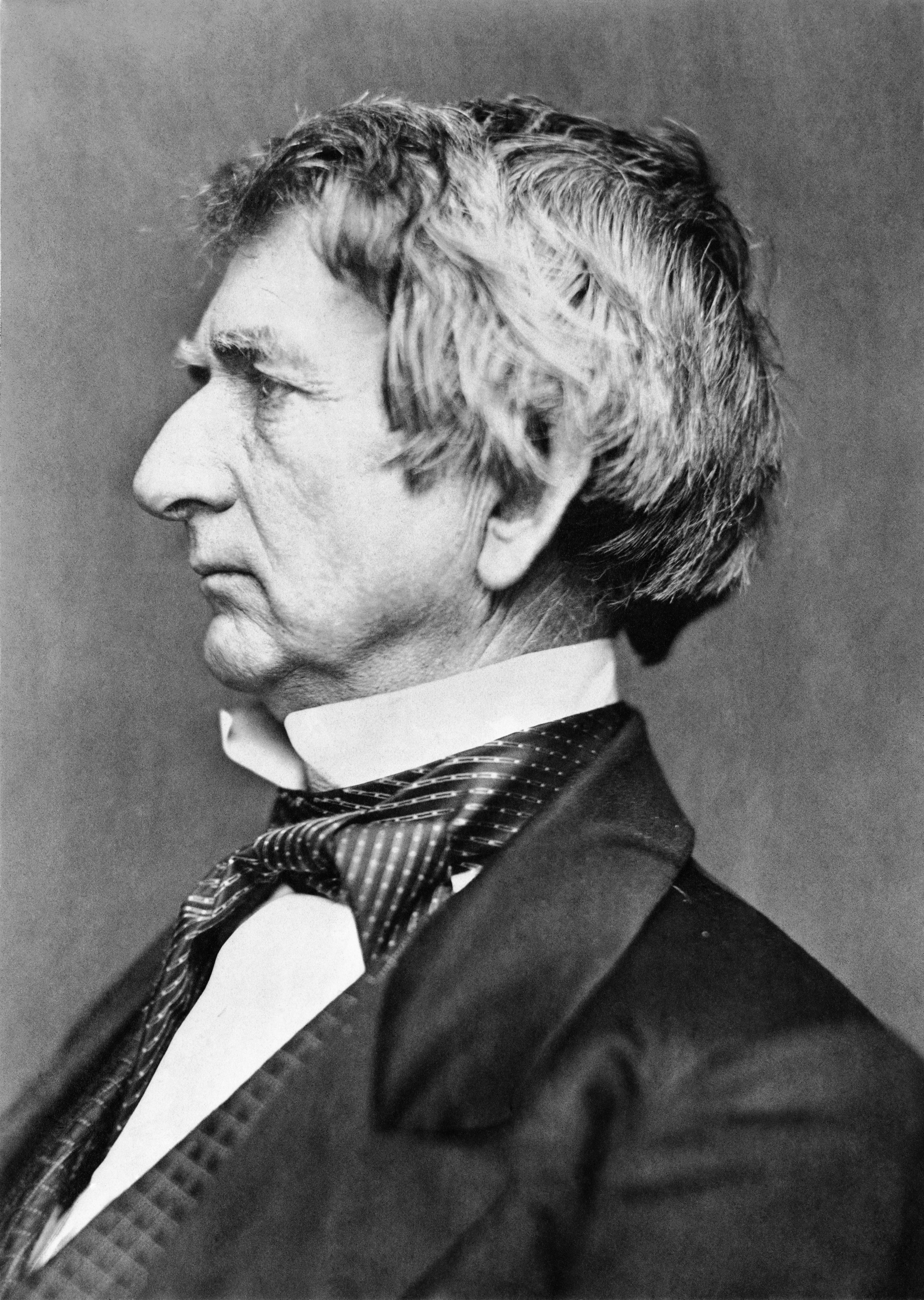 Portrait of William H. Seward, Secretary of State 1861-69